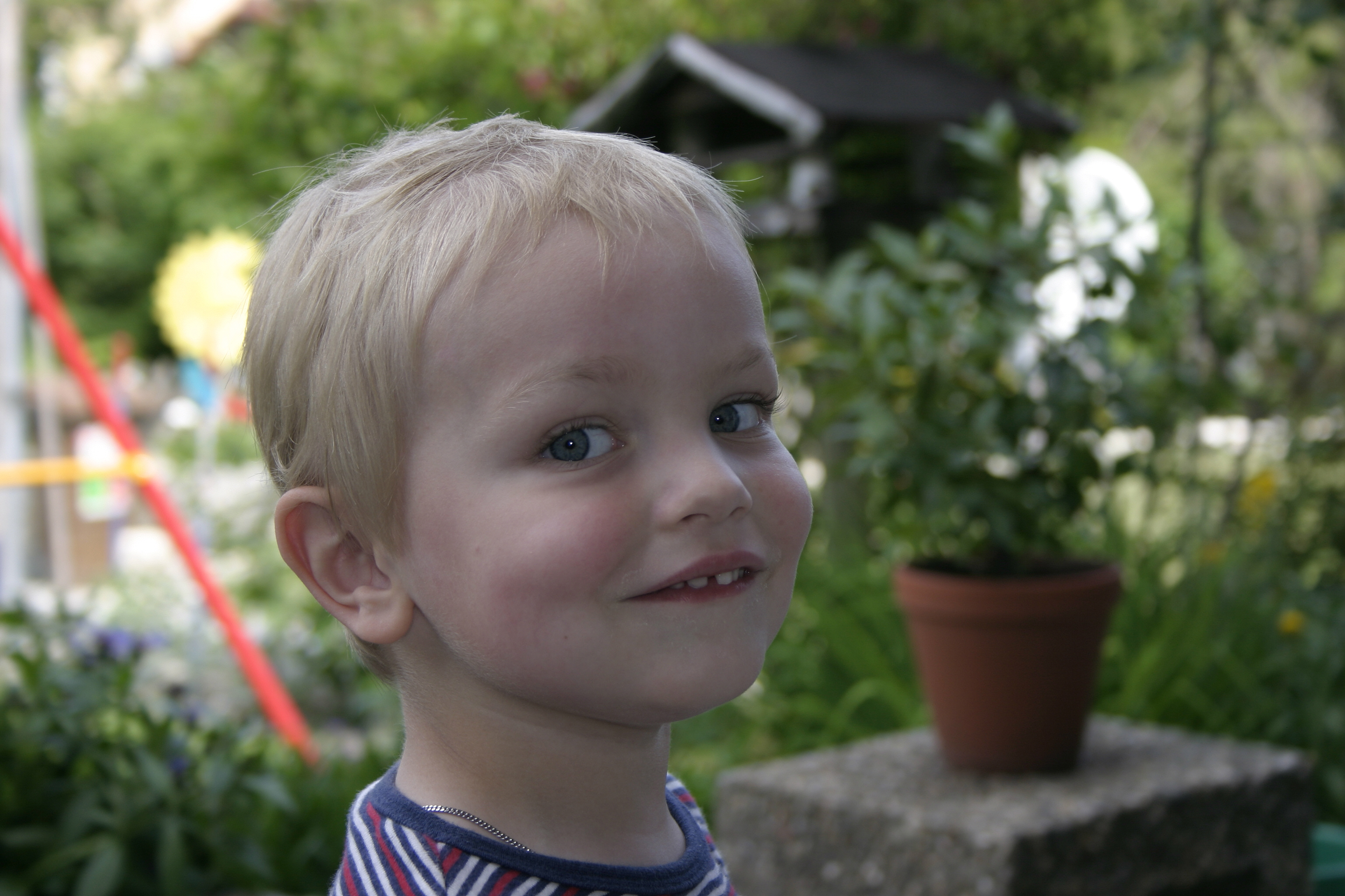 German child smiling